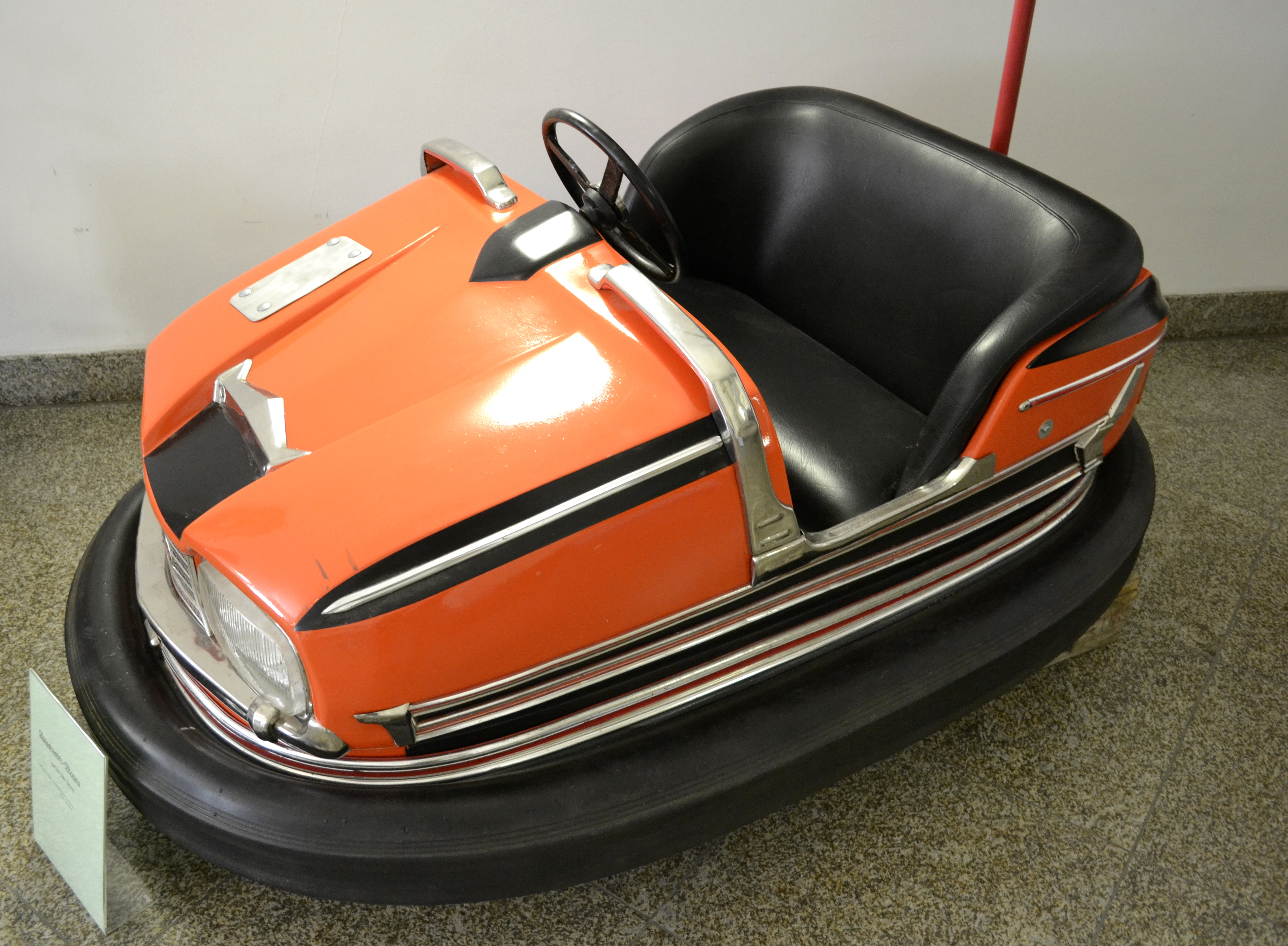 Bumper car from the 1950ies.